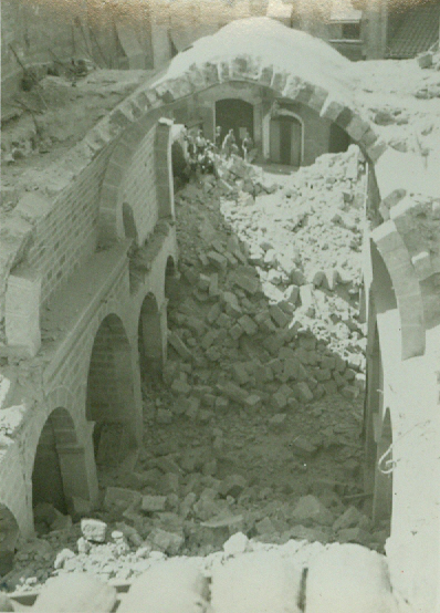 Enderroc Sant Salvador